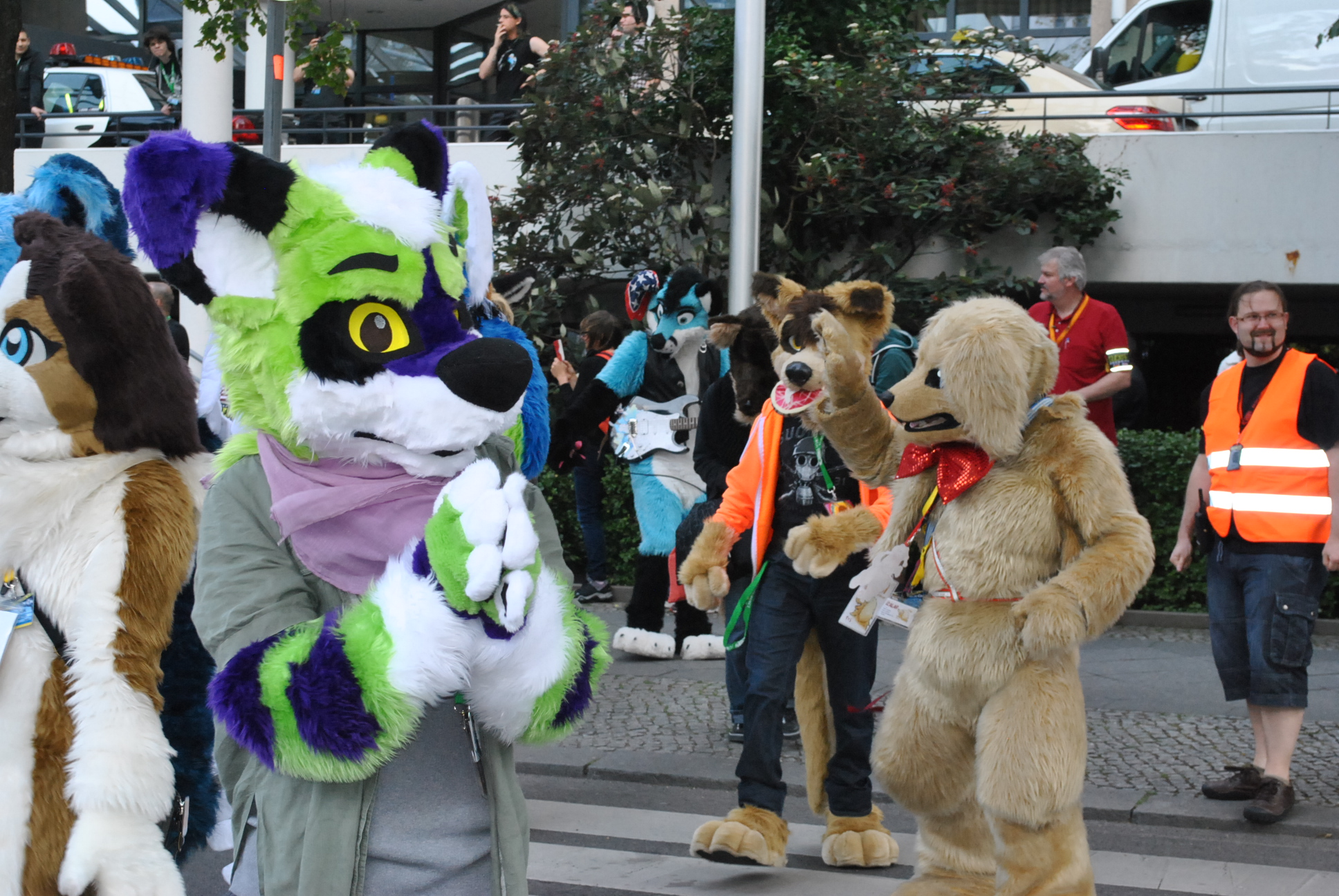 In the foreground of the photo, a person of furry fandom wearing a halfsuit, at Eurofurence 2014.